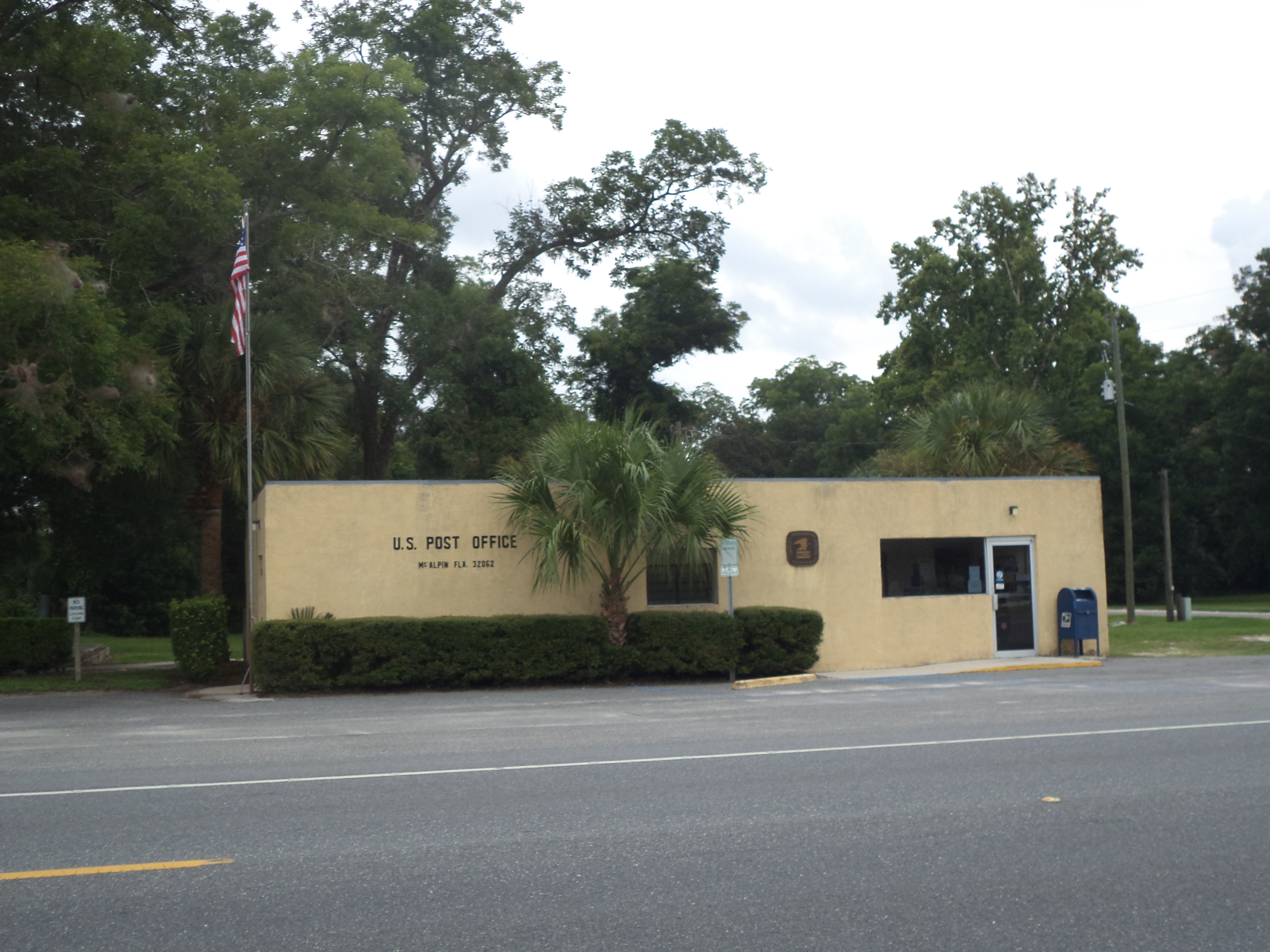 McAlpin Post Office, 17054 US Highway 129, McAlpin, Suwannee County, Florida